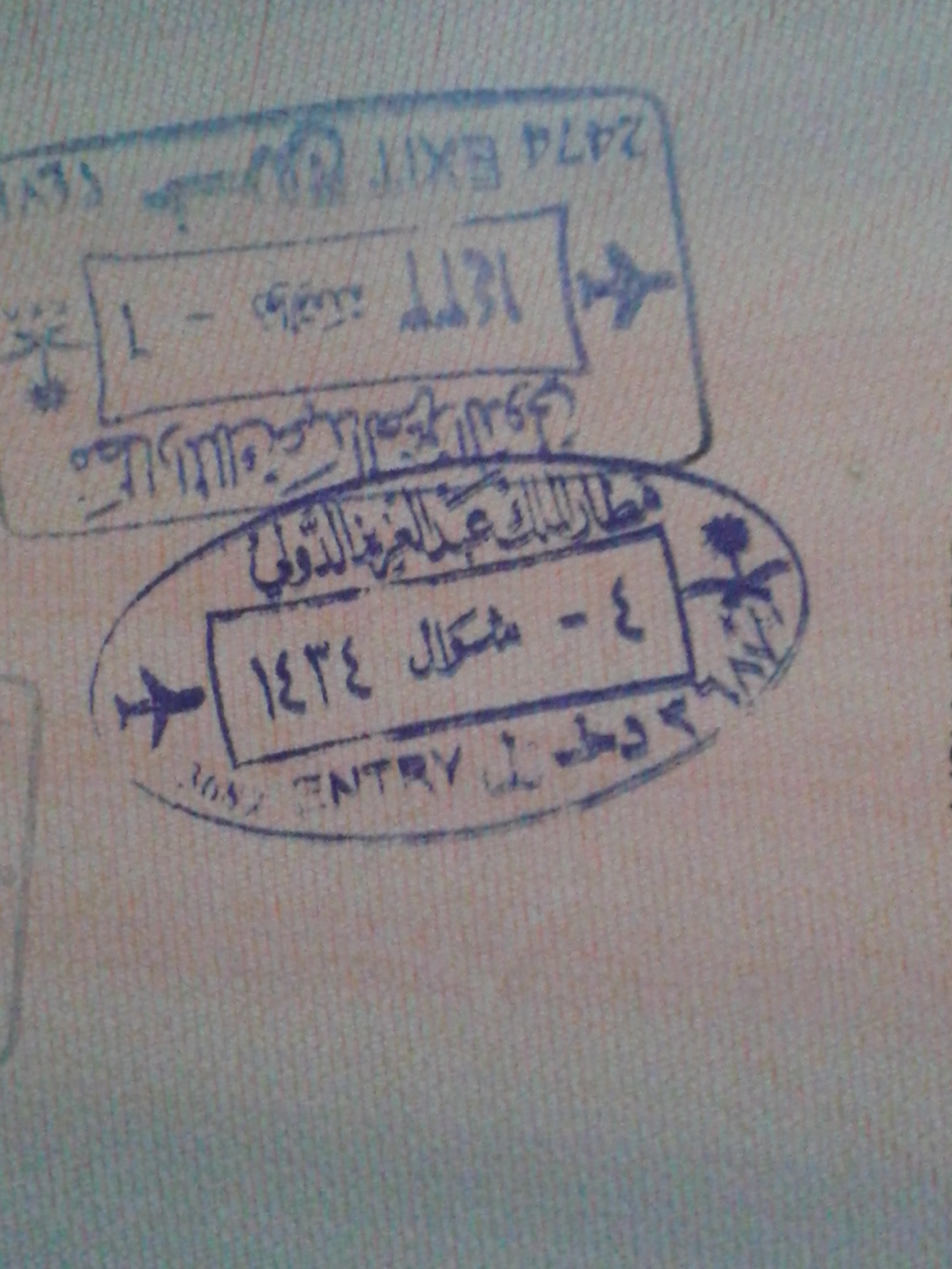 Saudi passport stamps from the King Abdulaziz International Airport in Jeddah.